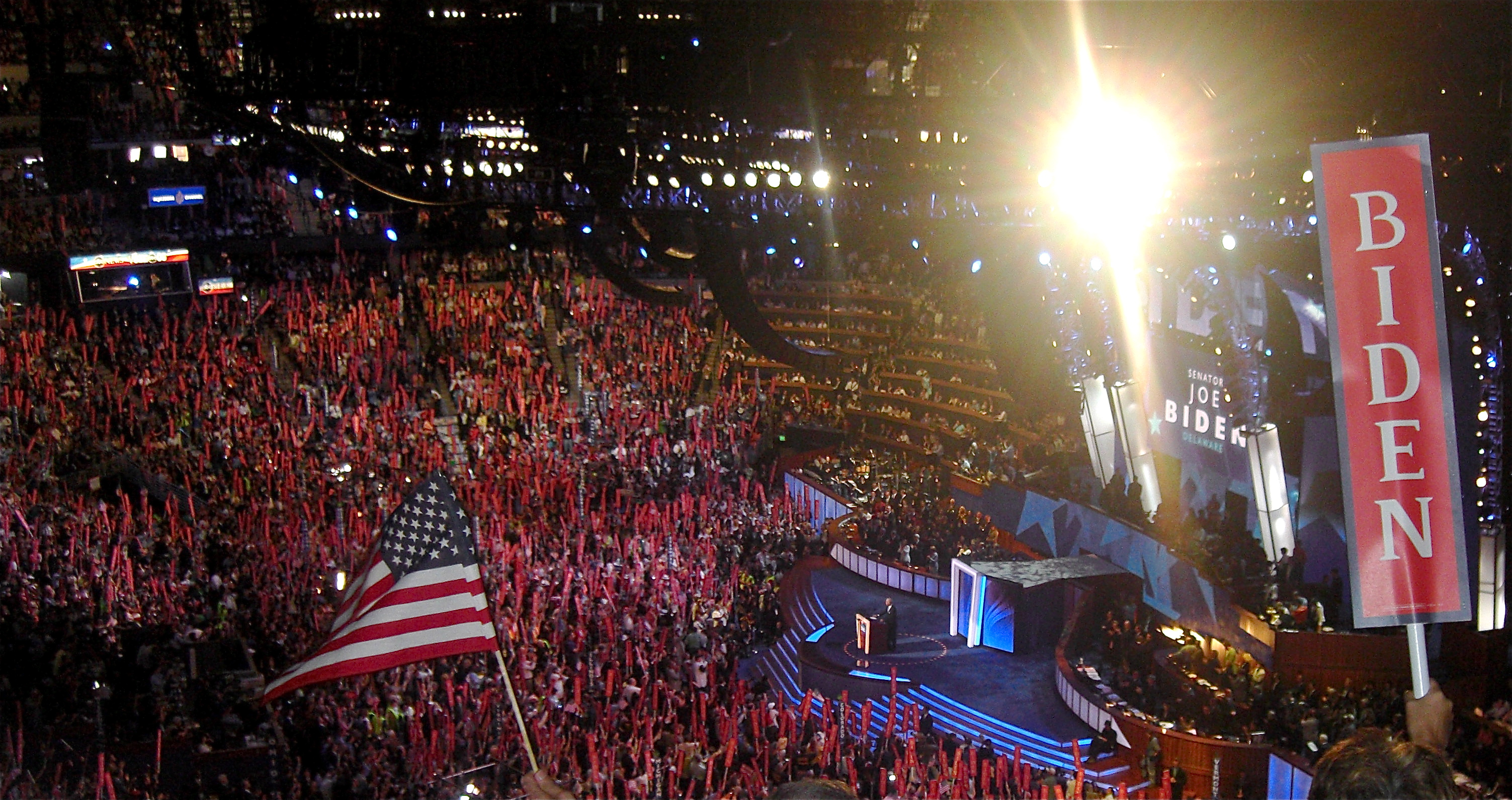 Joe Biden accepts the party's vice presidential nomination during the third night of the 2008 Democratic National Convention in Denver, Colorado.